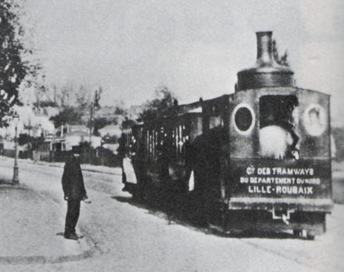 Francq fireless tram engine, in Lille France around 1900 - extract from a vintage postcard